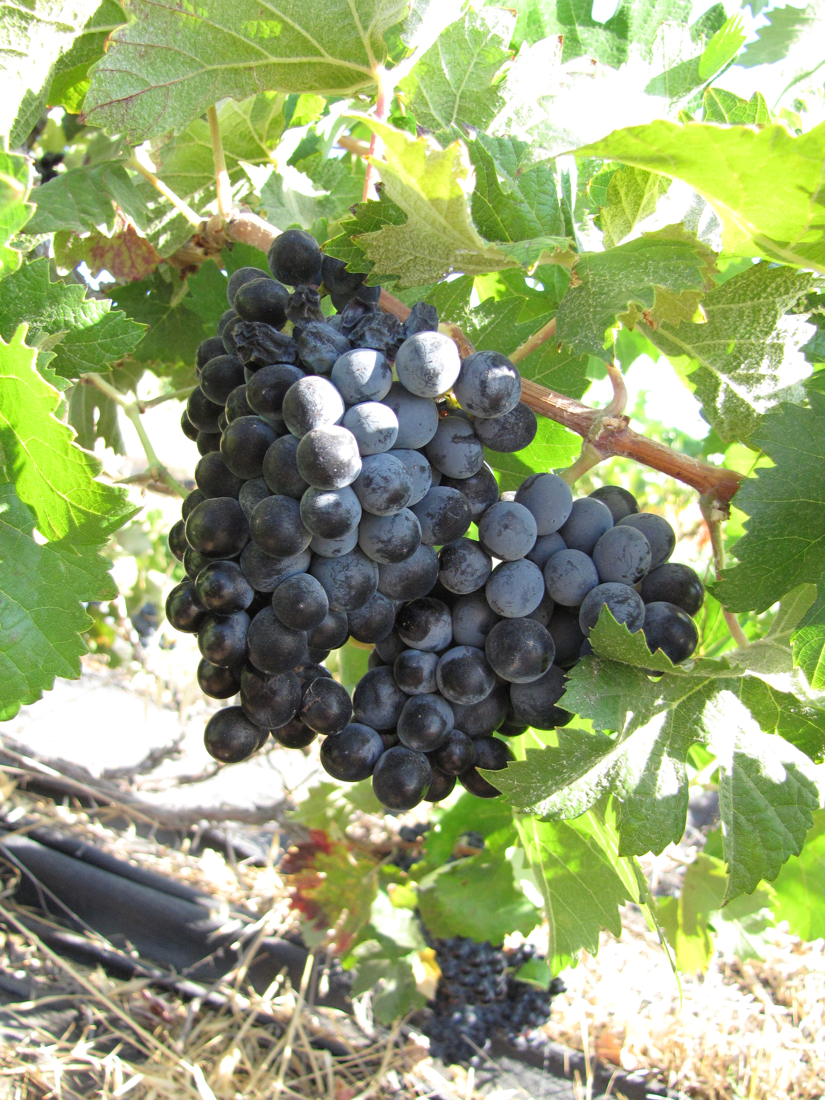 Clusters of grapes